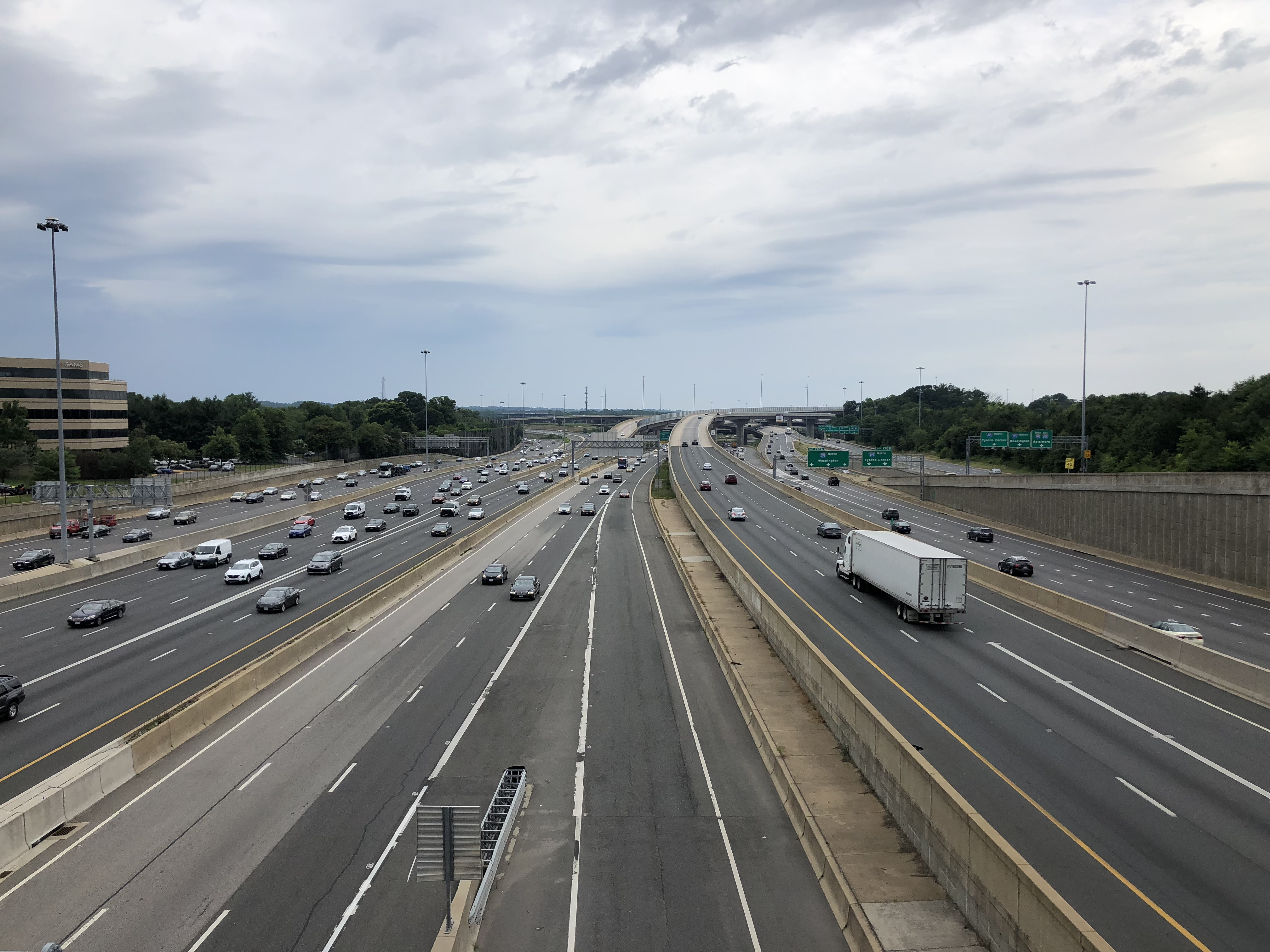 View north along Interstate 95 (Henry G. Shirley Memorial Highway) from the overpass for Virginia State Route 789 (Commerce Street) in Springfield, Fairfax County, Virginia